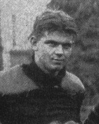 Vanderbilt football player and Rhodes Scholar Bob Blake c. 1903, cropped from team photo